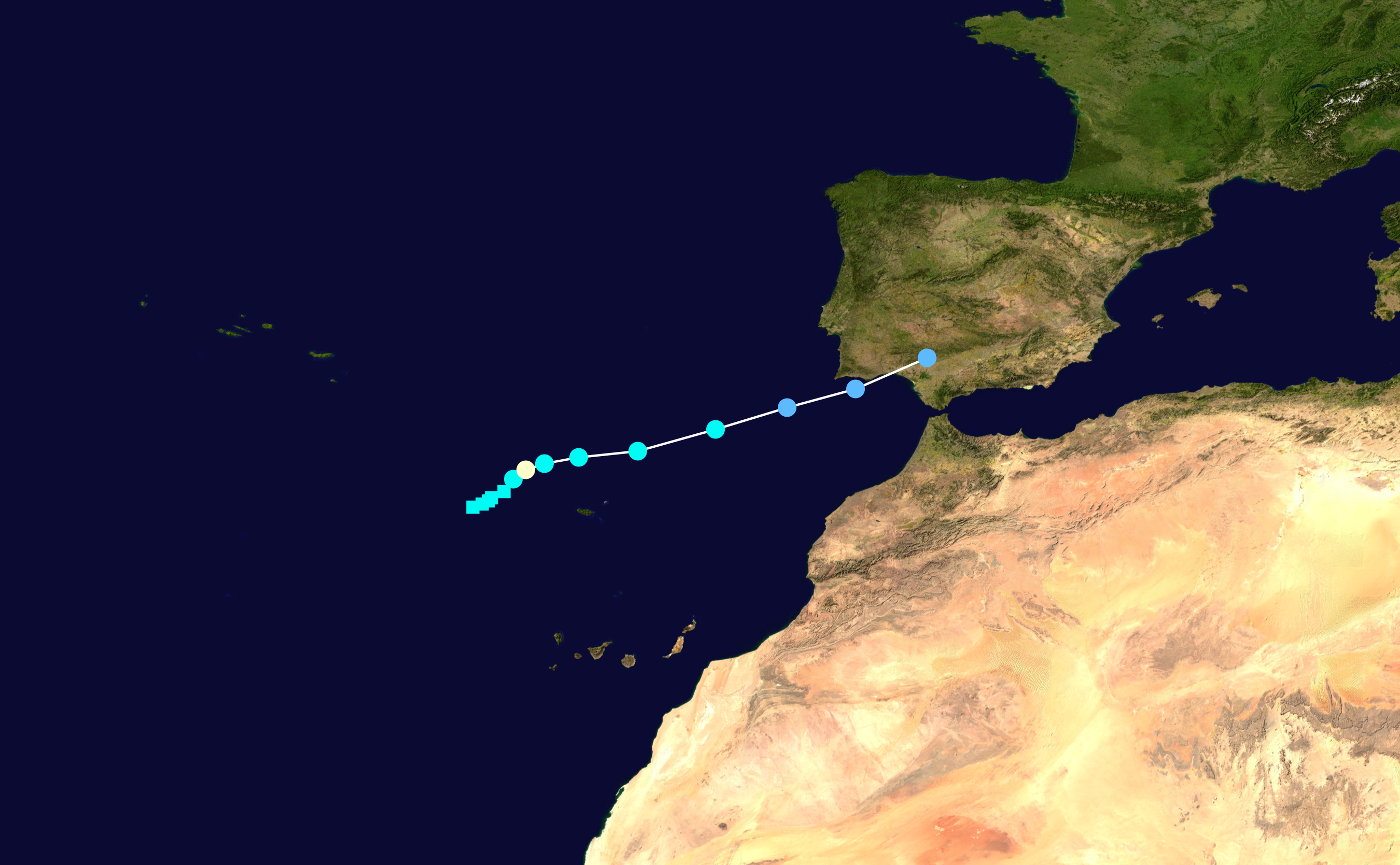 Track map of Hurricane Vince of the 2005 Atlantic hurricane season. The points show the location of the storm at 6-hour intervals. The colour represents the storm's maximum sustained wind speeds as classified in the Saffir–Simpson scale (see below), and the shape of the data points represent the nature of the storm, according to the legend below. Saffir–Simpson scale Tropical depression≤38 mph≤62 km/h Category 3111–129 mph178–208 km/h Tropical storm39–73 mph63–118 km/h Category 4130–156 mph209–251 km/h Category 174–95 mph119–153 km/h Category 5≥157 mph≥252 km/h Category 296–110 mph154–177 km/h Unknown Storm type Tropical cyclone Subtropical cyclone Extratropical cyclone / Remnant low / Tropical disturbance / Monsoon depression